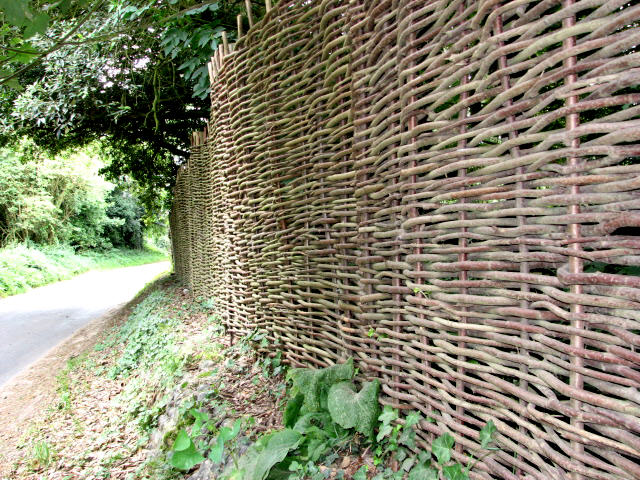 Wickerwork fence and road past Old Hall Farm